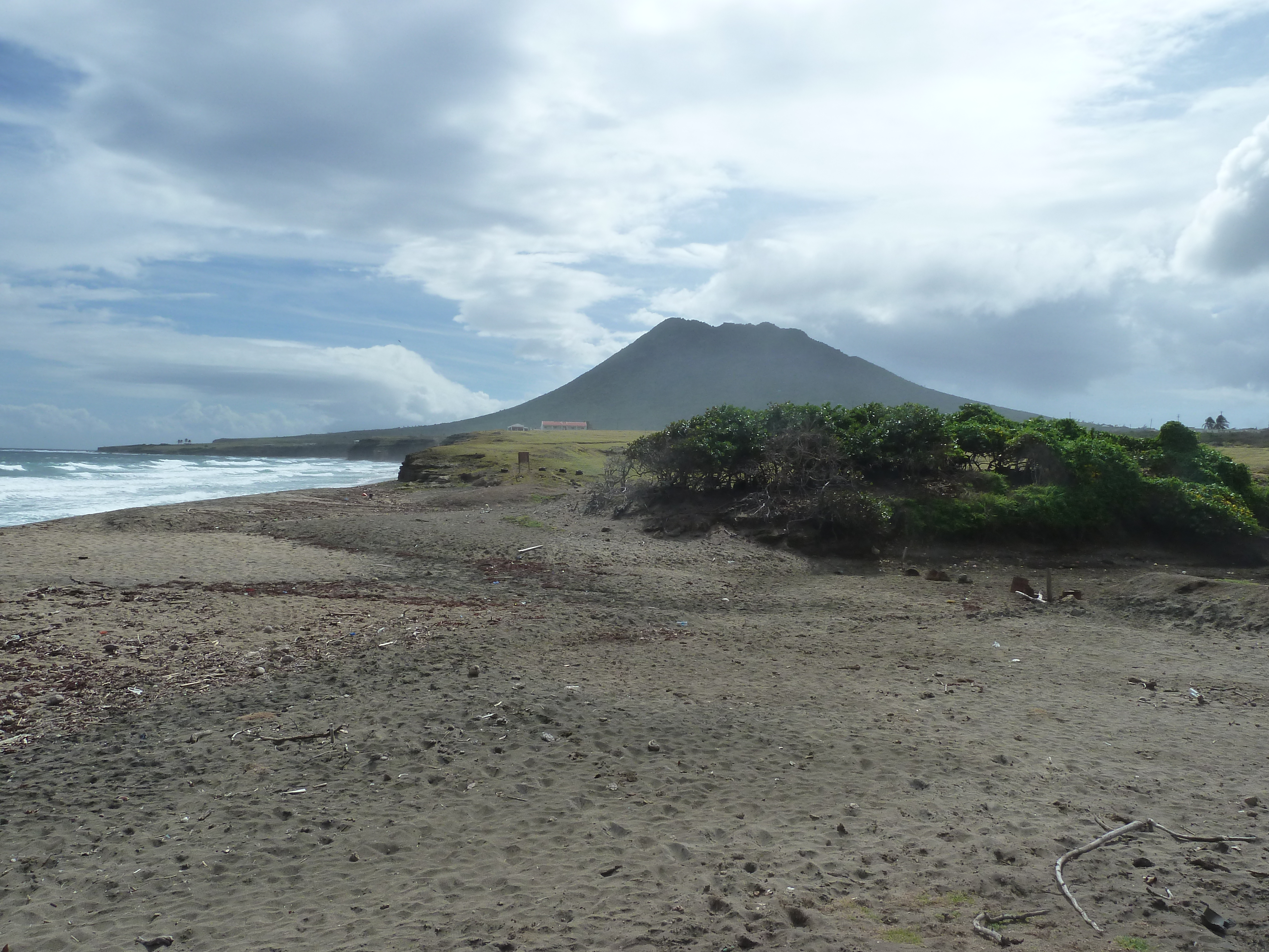 Zeelandia Beach, Statia, Jan 2012.